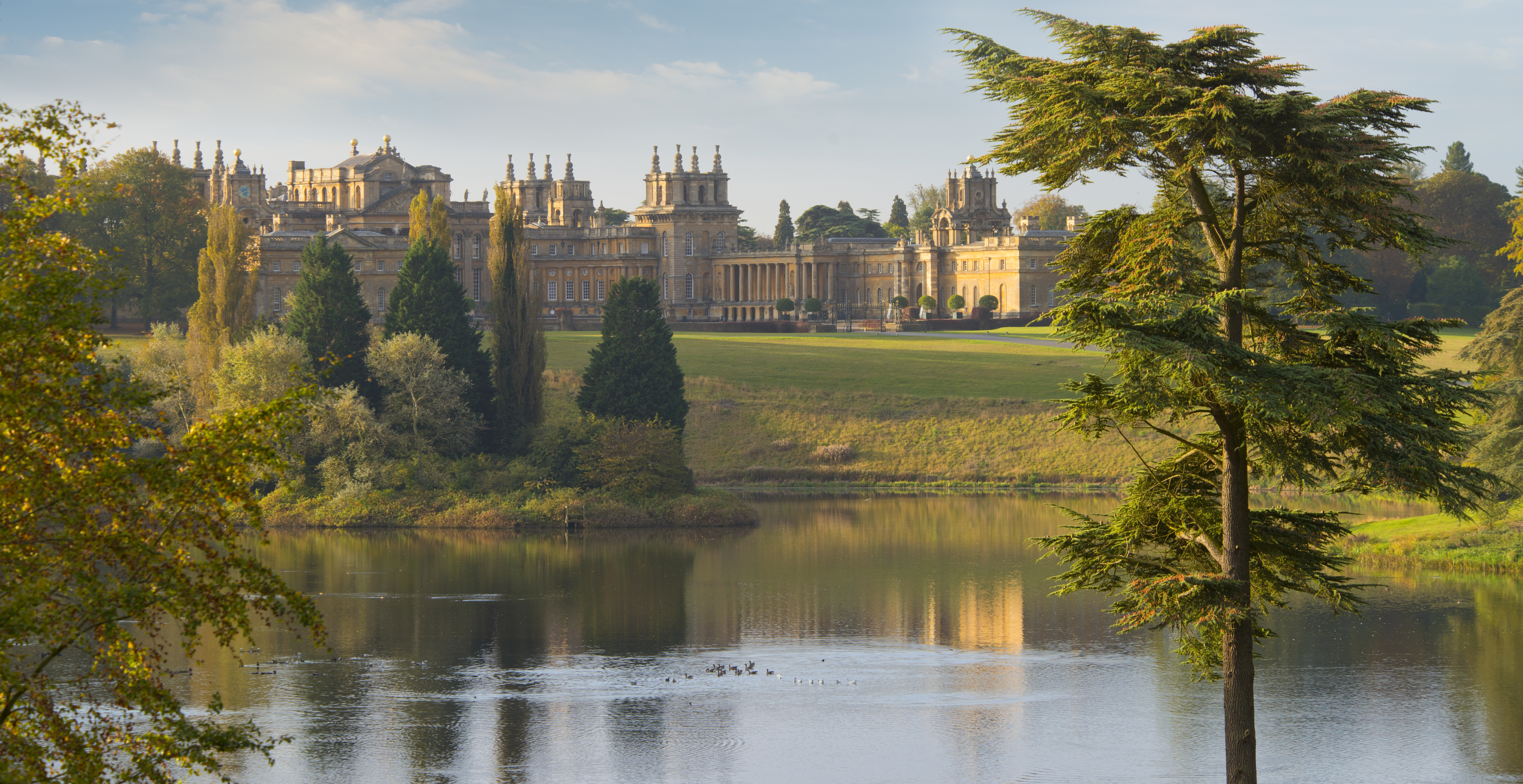 Copyright Blenheim Palace 2014